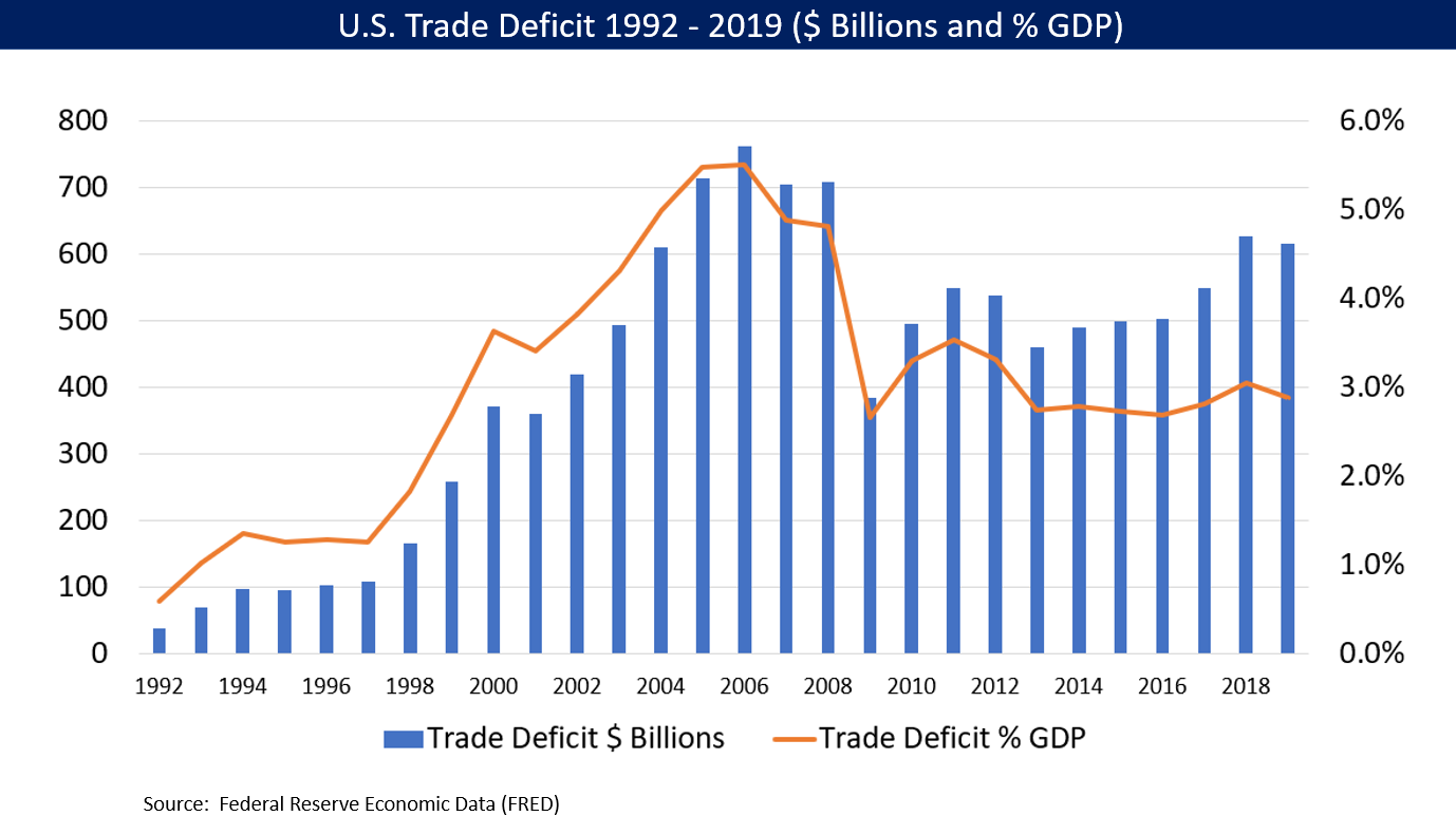 U.S. Trade Deficit Net exports (exports less imports or X-M) is one of the components of GDP. In the U.S., net exports are negative, meaning imports are greater than exports. This is a trade deficit. Mathematically, a trade deficit reduces GDP, other things equal. The U.S. trade deficit decreased from $627.7 billion in 2019 to $617.7 billion in 2018, down $10.9 billion or 1.7%.[1] The U.S. trade deficit with China (goods only) decreased from $420 billion in 2018 to $346 billion in 2019, down $74 billion or 20%.[2] The Federal Reserve Economic Data (FRED) chart containing the trade deficit and GDP data for the image is available at the citations.[3] References ↑ U.S. Census Bureau-Annual Trade Highlights-Retrieved October 16, 2016 ↑ U.S. Census Bureau-Trade with China-Retrieved October 16, 2016 ↑ FRED-Trade Deficit and GDP Data Obtaining data The trade deficit data is available here: BEA - Trade News Release. Use the interactive tables option to get the period needed. The GDP data is available here: BEA-GDP News Release Use the interactive tables, Table 1.1.5 GDP for the nominal GDP.